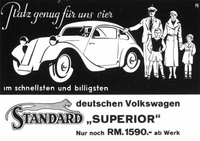 Brochure for the second model of the Standard Superior car, built by the Standard Fahrzeugfabrik according to the patents of German engineer Josef Ganz, 1934 - 1935.